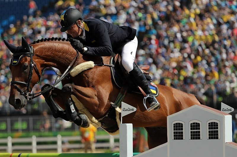 Show jumping at the 2016 Summer Olympics: Ulrich Kirchhoff and Prince de la Mare (Horse Nr. 377)